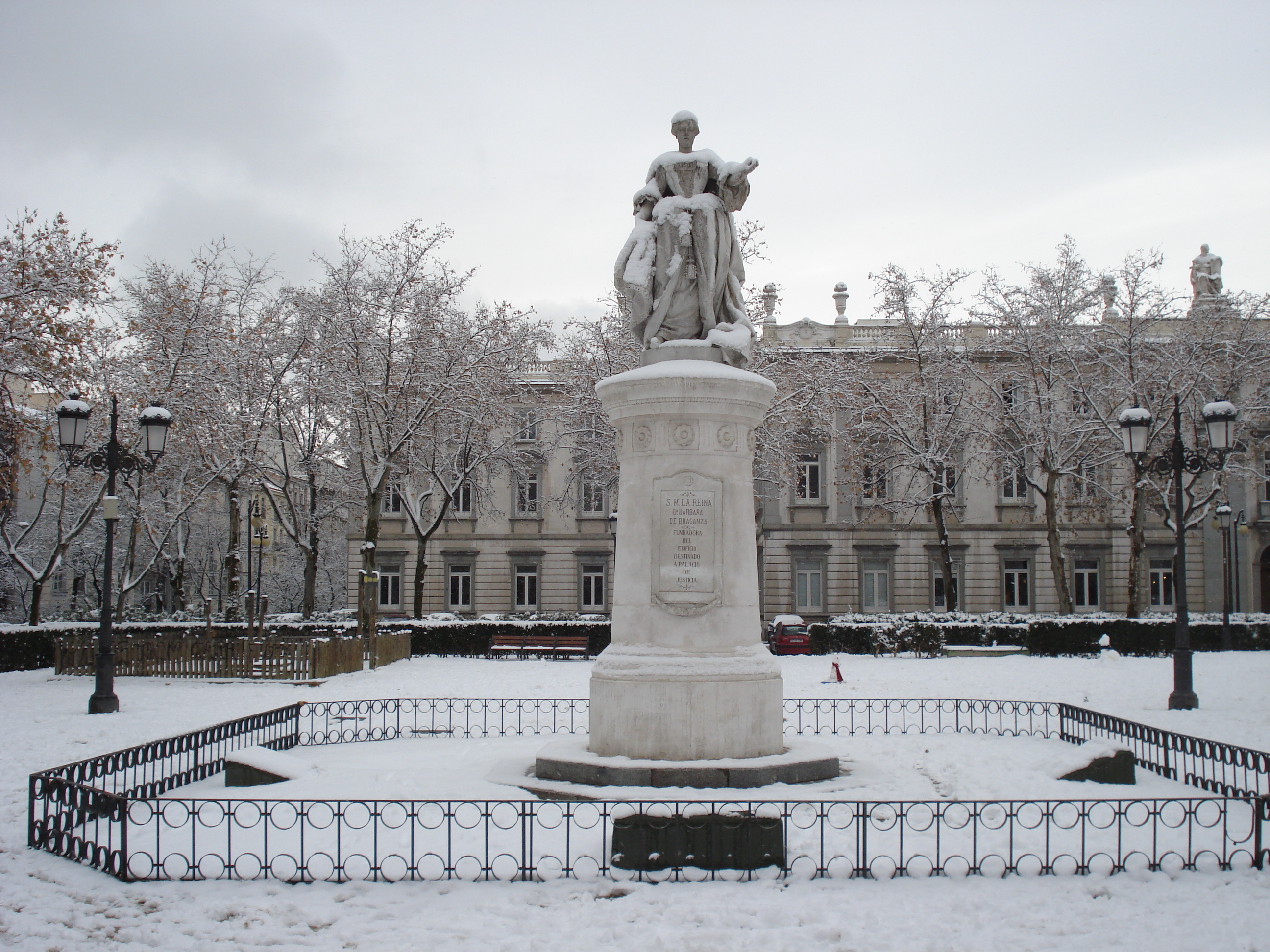 View of the left court of Plaza de la Villa de París (Paris City Square), Madrid, Spain. The statue of Barbara of Portugal was made by Mariano Benlliure.